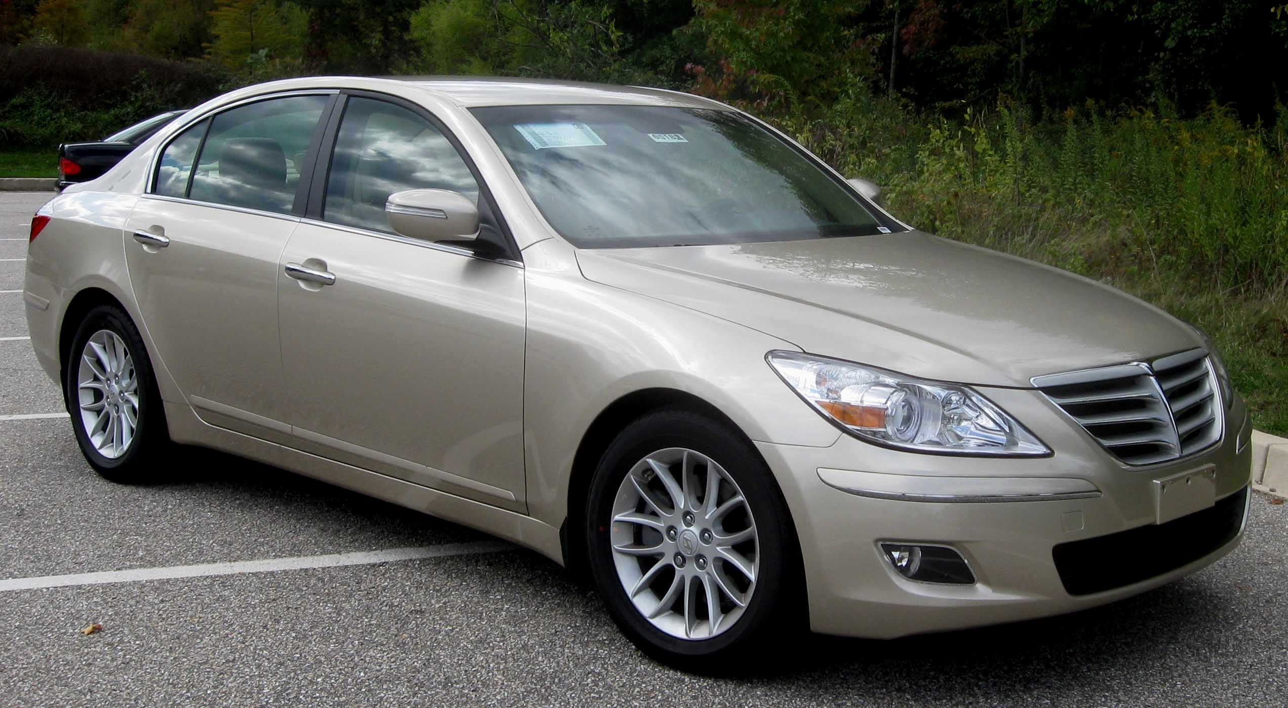 2009 Hyundai Genesis photographed in College Park, Maryland, USA.